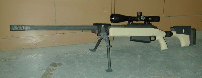 MK 15 MOD 0 SASR – Caliber .50 BMG